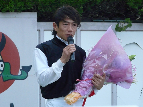 Kotaro-Akagi20111117